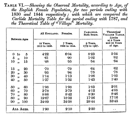 Female mortality table by Thomas Rowe Edwards, in the Assurance Magazine.[1]